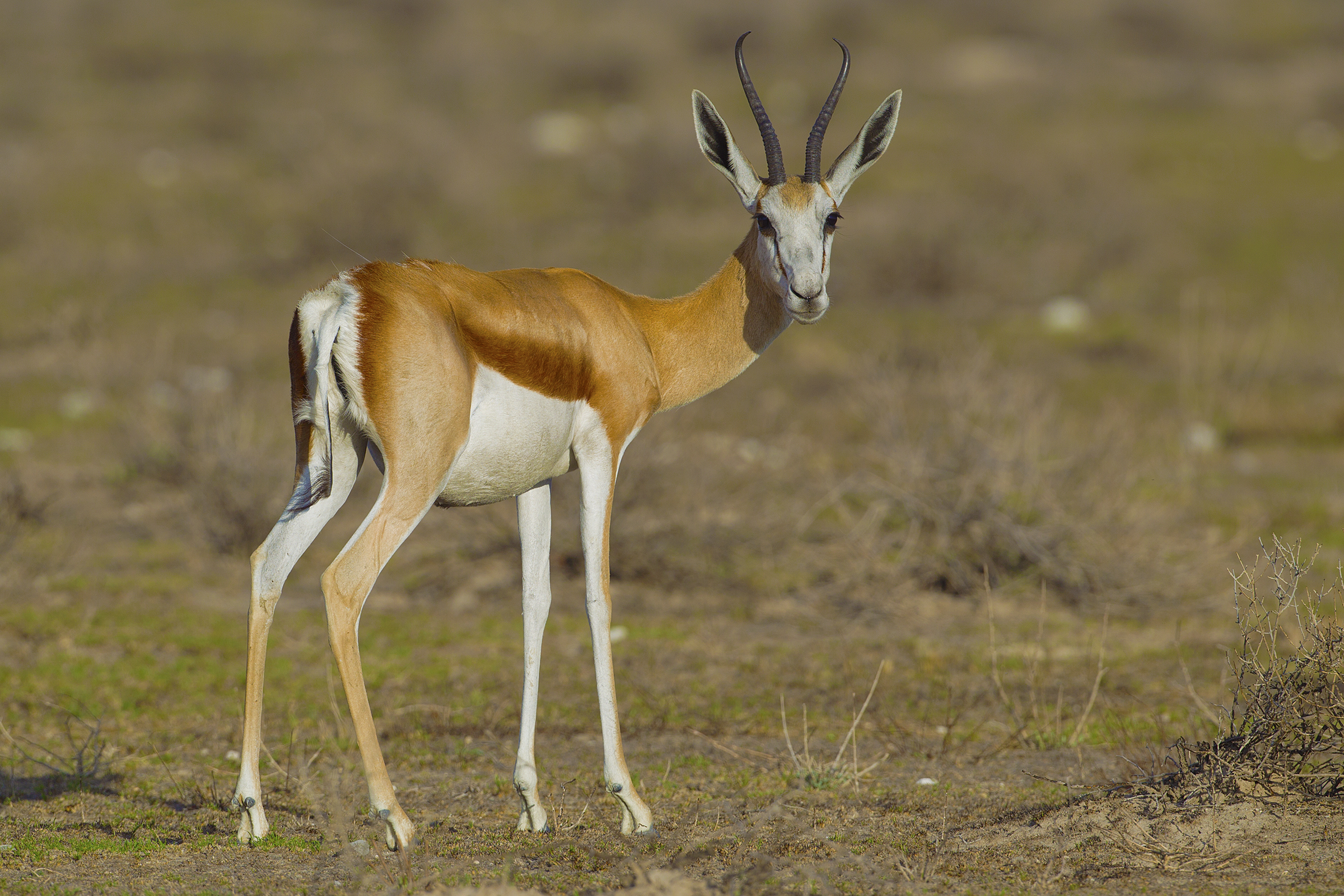 Adult springbok female